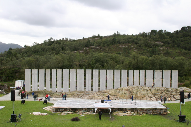 Bård Breivik's installation at Flolid in Gulen.